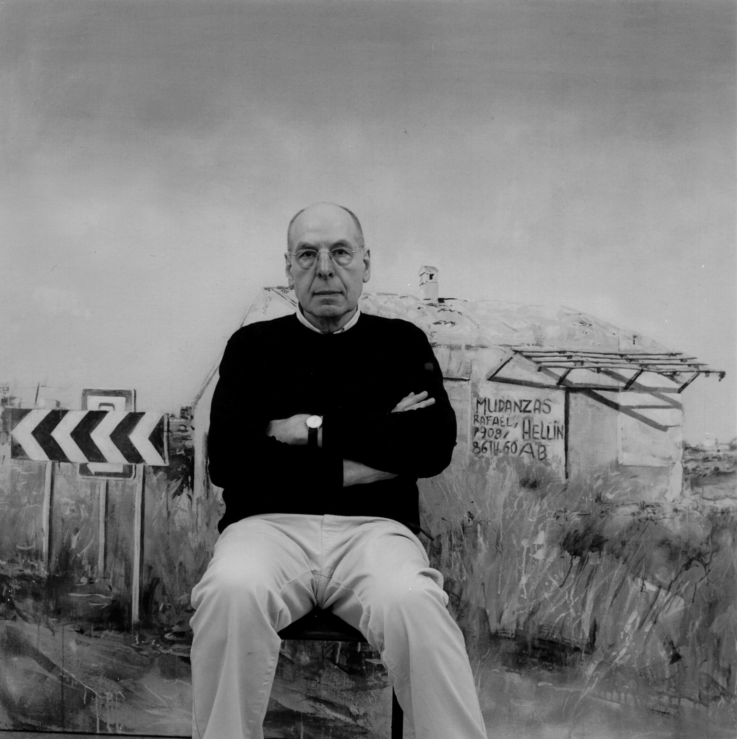 Portrait of the painter Hans-Georg Dornhege